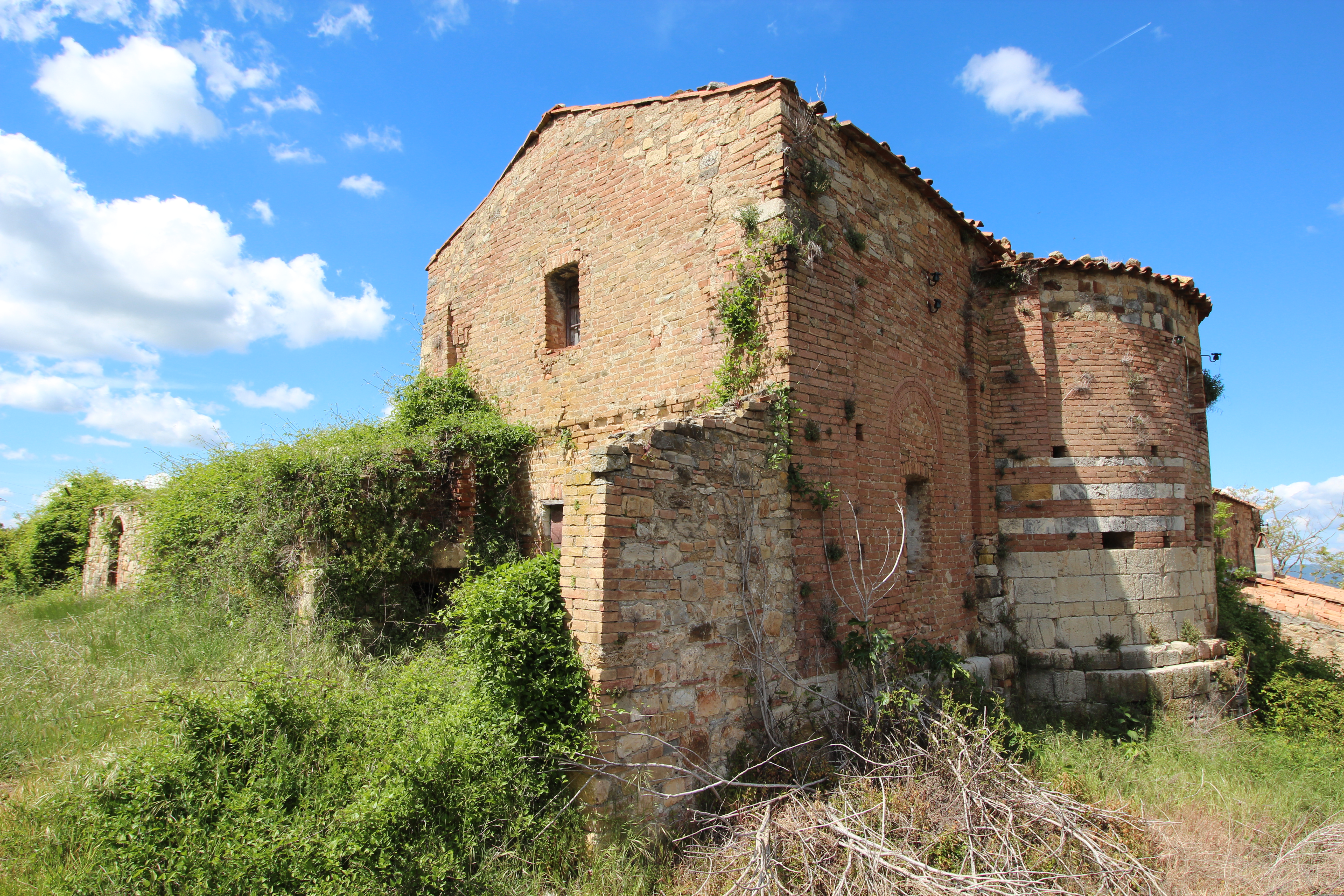 Church San Giovanni Battista a Morba, near Larderello, territory of Pomarance, Province of Pisa, Tuscany, Italy